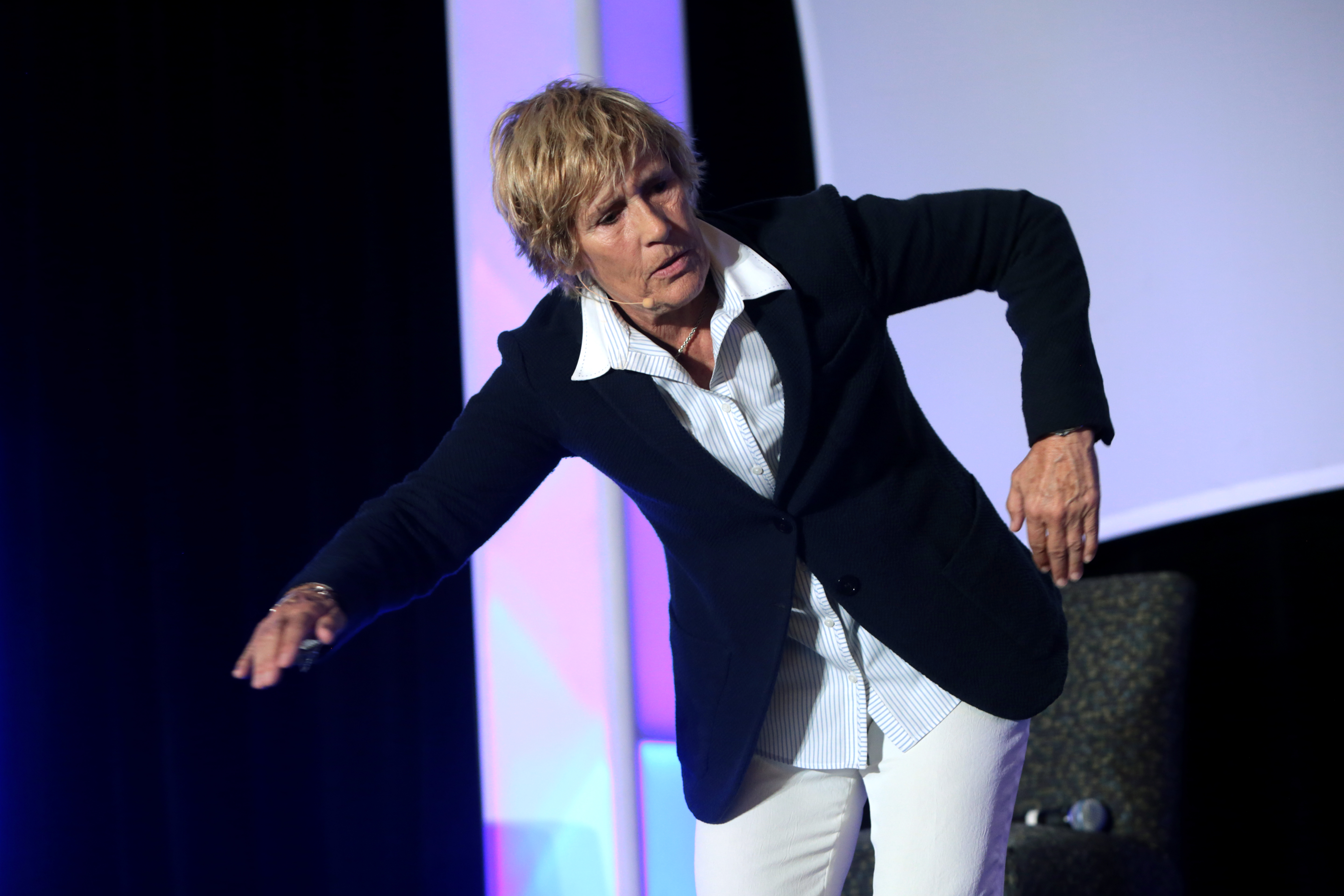 Diana Nyad speaking at the 2016 Association for Applied Sport Psychology Annual Conference at the Arizona Grand Resort in Phoenix, AZ.